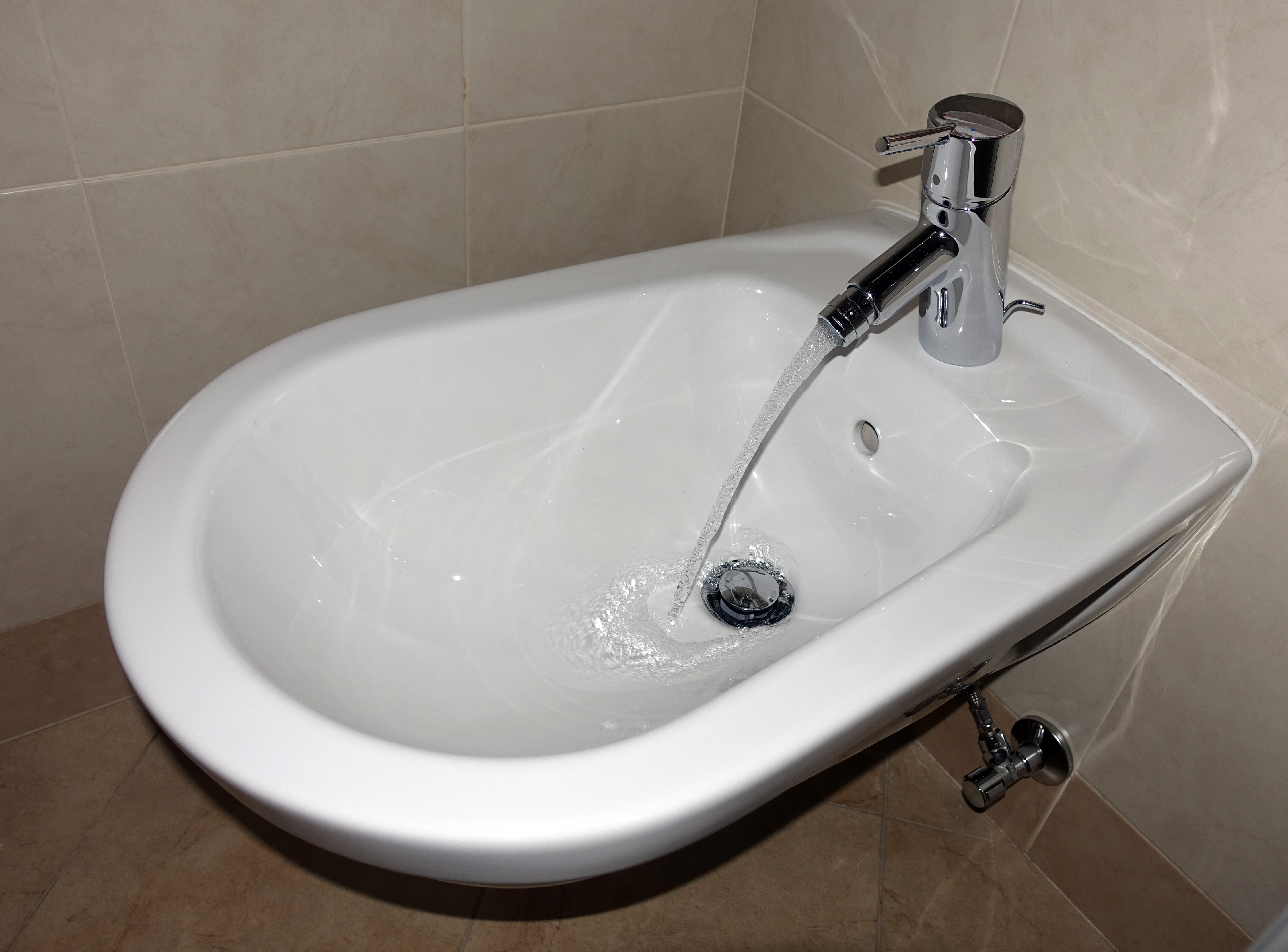 A bidet with running water in Italy.